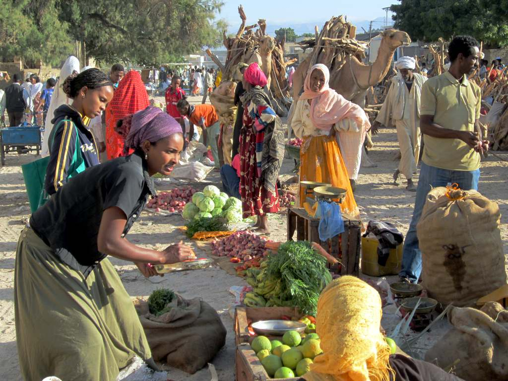 Fresh vegetables for sale on a dry riverbed in Keren, Eritrea.